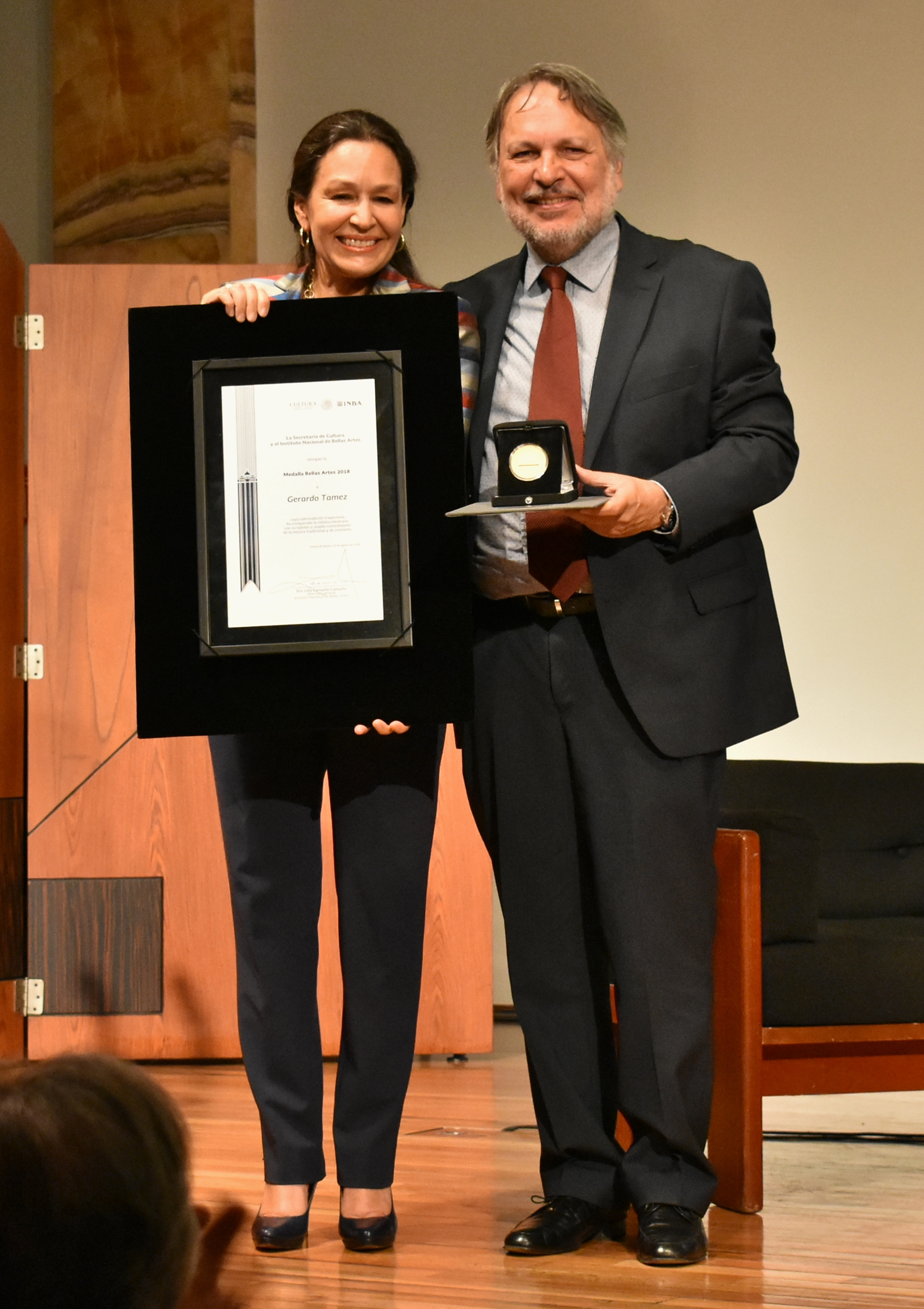 Gerardo Tamez, 2018.